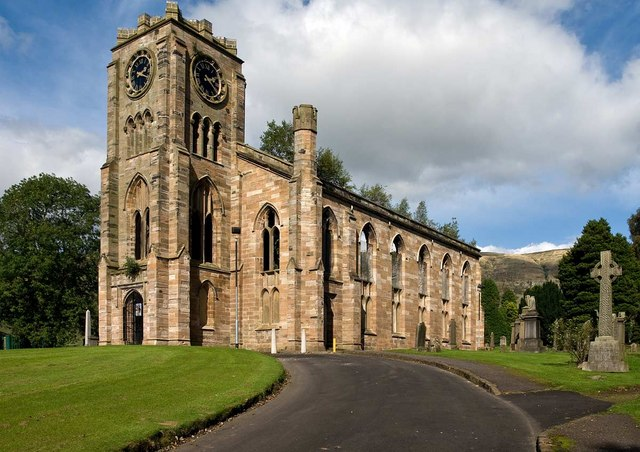 Campsie Parish Church Viewed from south of the building.